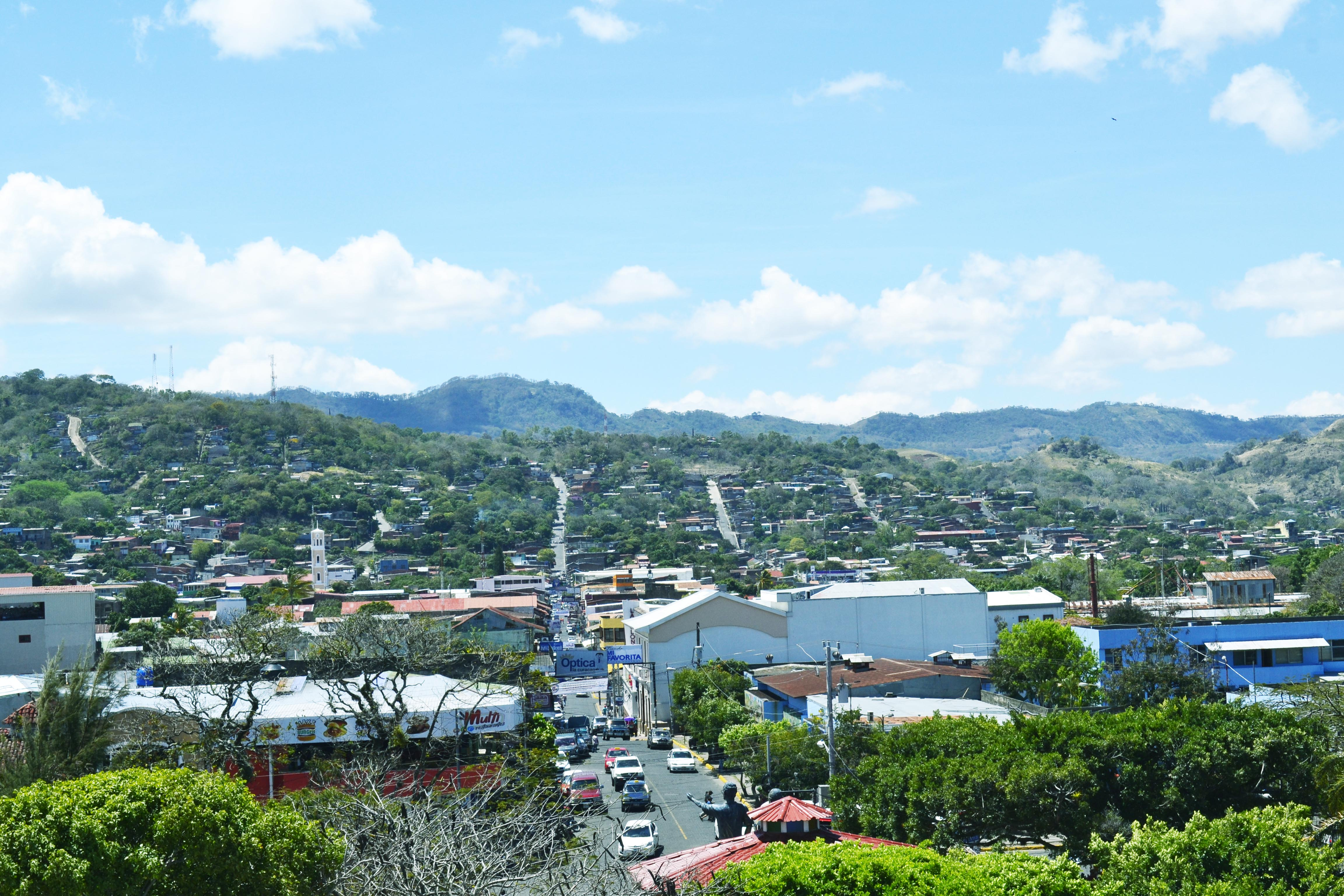 matagalpa cuidad